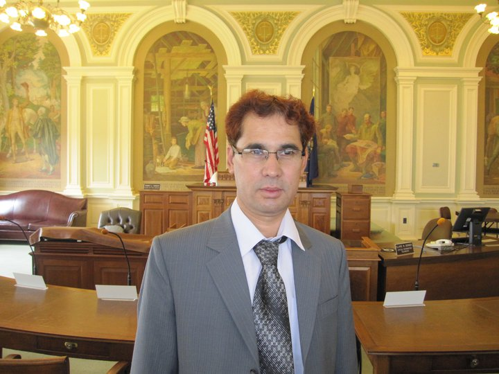 Jan Ali Changezi is the former Minister for Education in the Balochistan Government. He belongs to the Pakistan People's Party Parliamentarians. Balochistan, Pakistan.